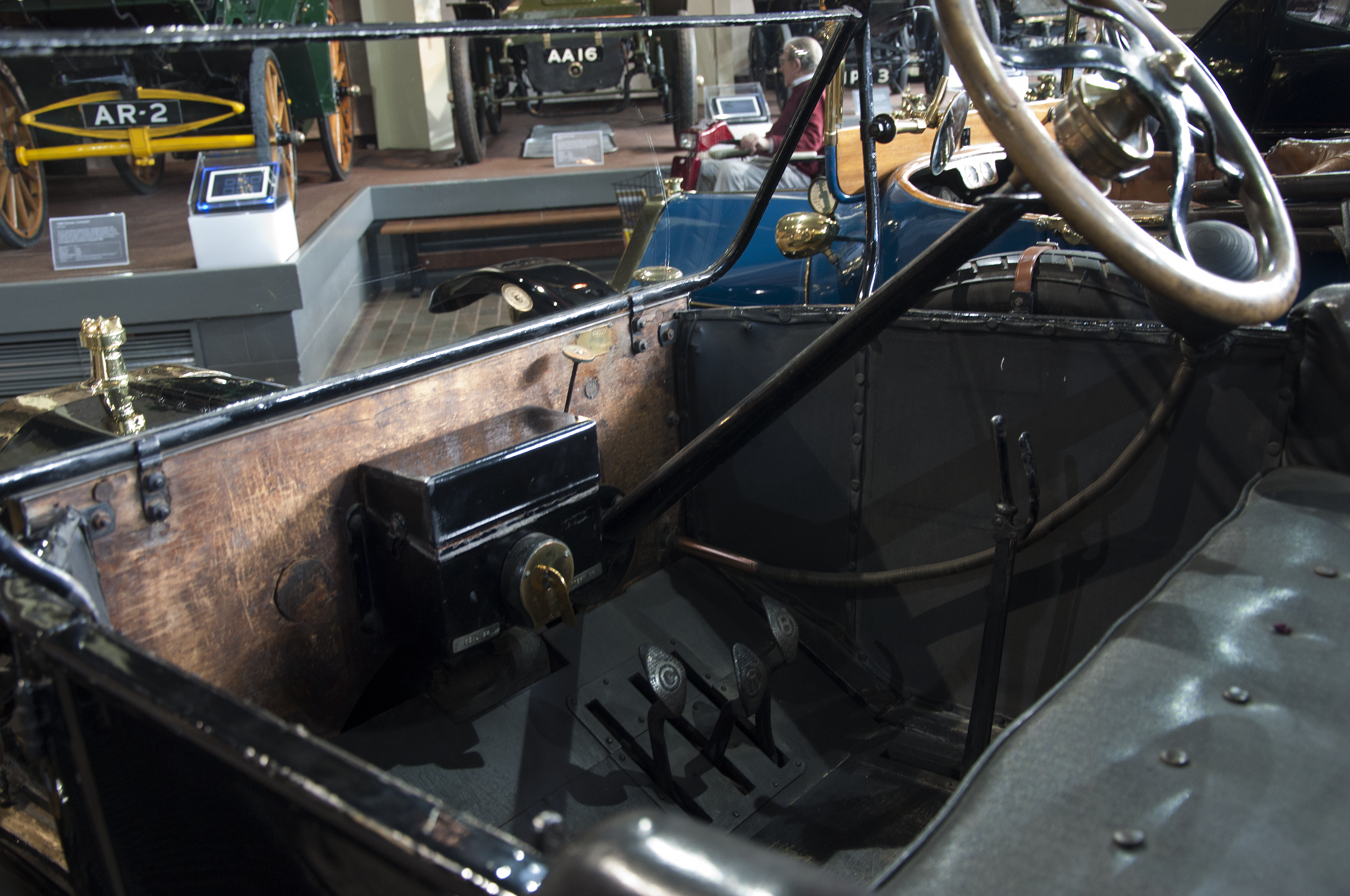 Ford model T 1914 at the National Motor Museum, Beaulieu, England